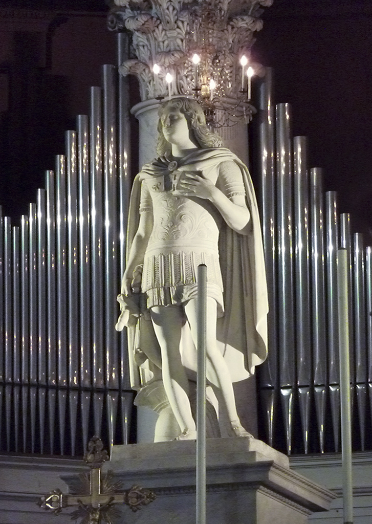 Saint Maurice's white marble statue, by Carlo Finelli (1842), in style inspired by Antonio Canova. SaintMaurice basilique, porto Maurizio - Imperia, Italy